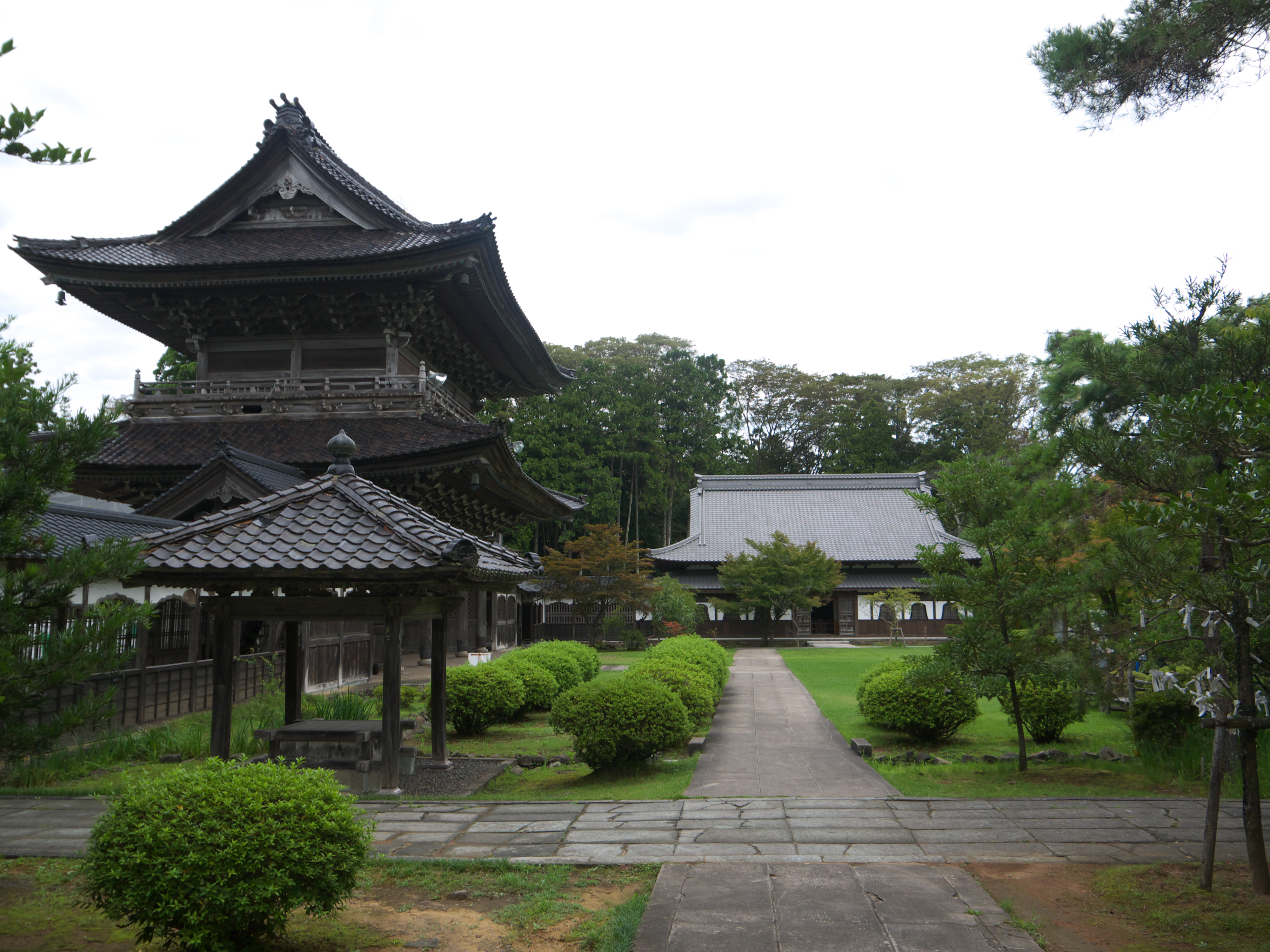 Sojiji Soin sanmon and sodo (monks' hall)